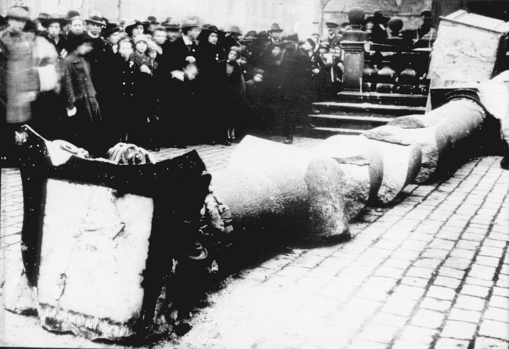 Marian column in Old Town Square, Prague, the Czech Republic, destroyed by a crowd in 1918 as a symbol of Habsburg Monarchy.